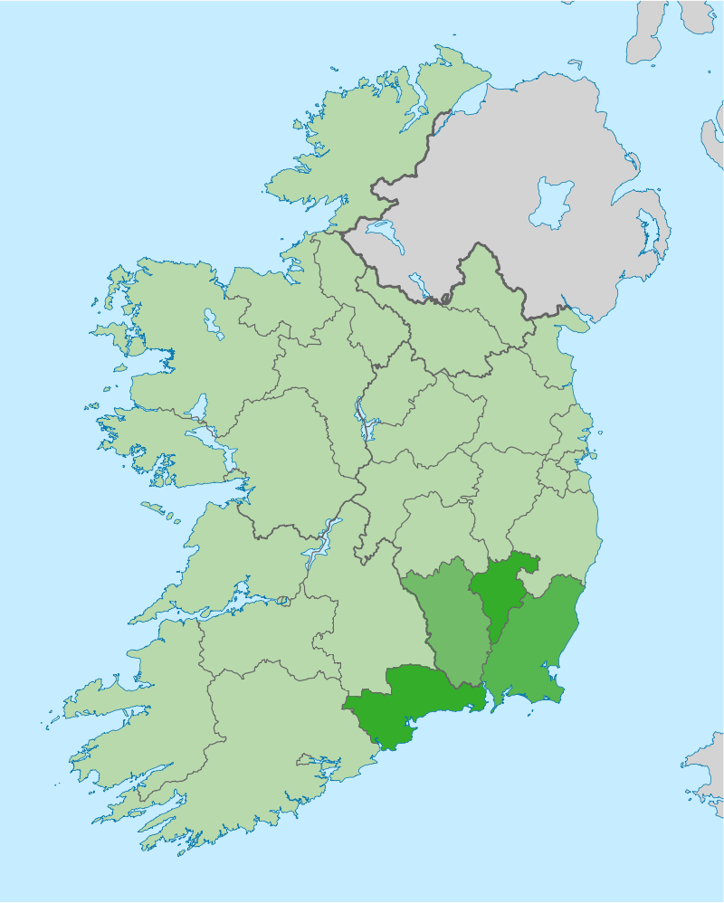 New 2018 boundaries for the South-East Region, Ireland